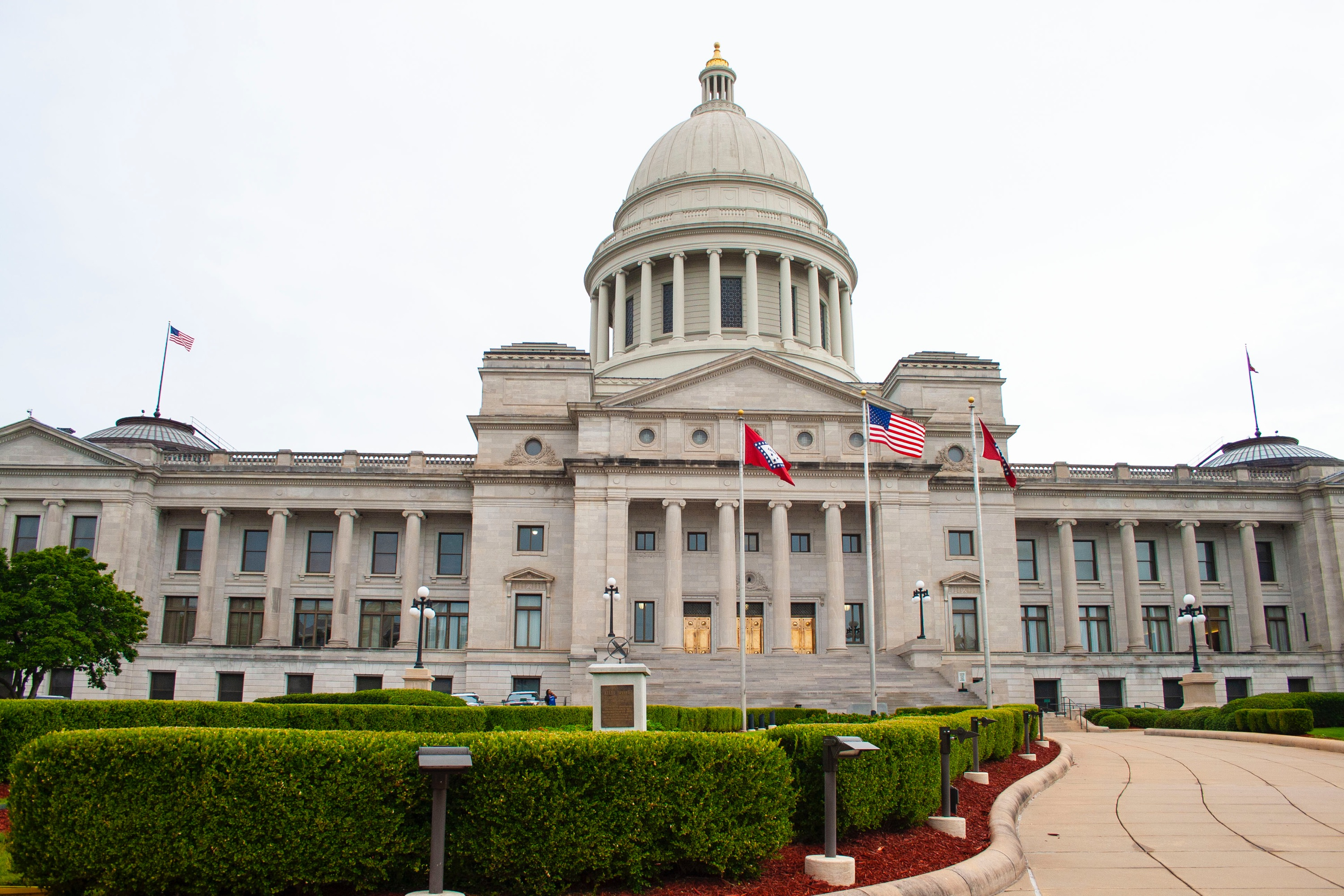 This photo was taken in July 2018, in front of the Arkansas State Capitol.